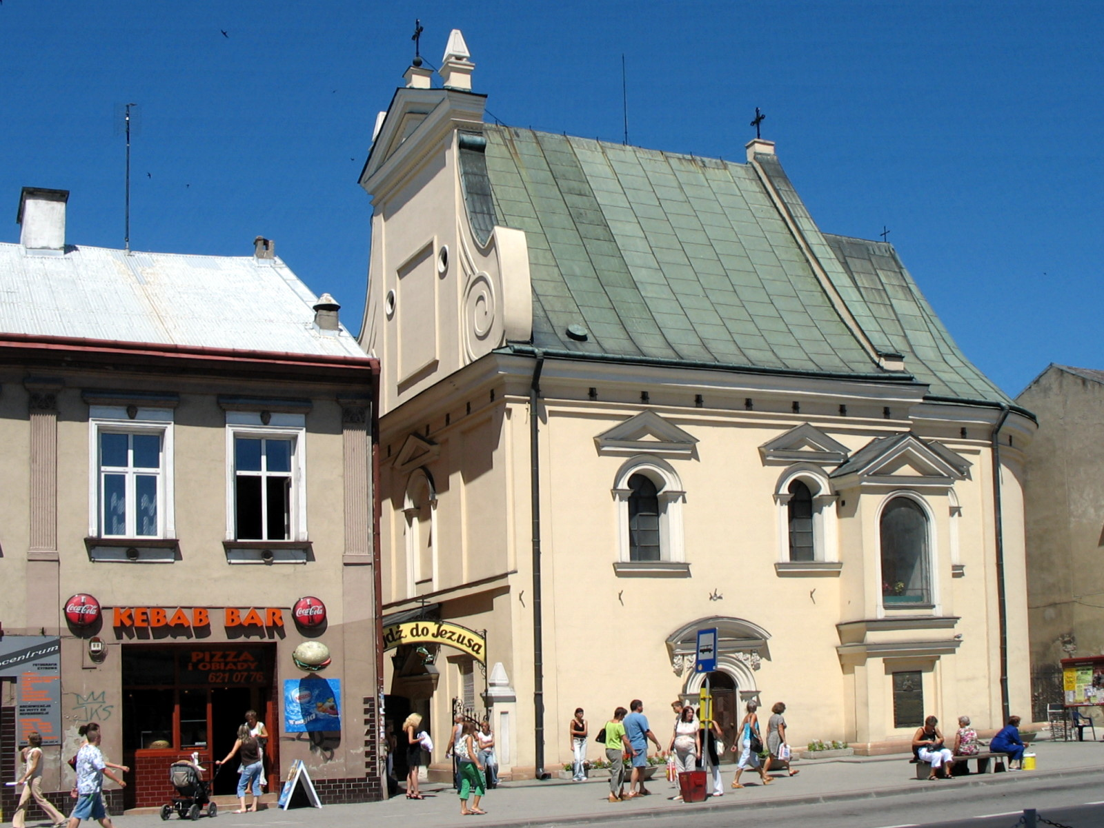 Jarosław (Poland), Holy Spirit church